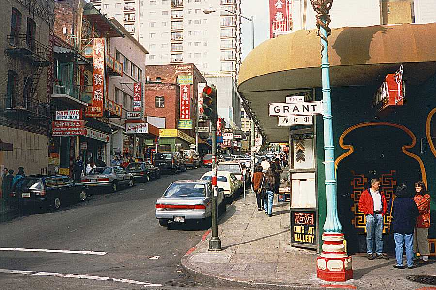 Chinatown, San Francisco California, 1993 1993-04-09, smaller version Image:San Francisco Chinatown small.jpg